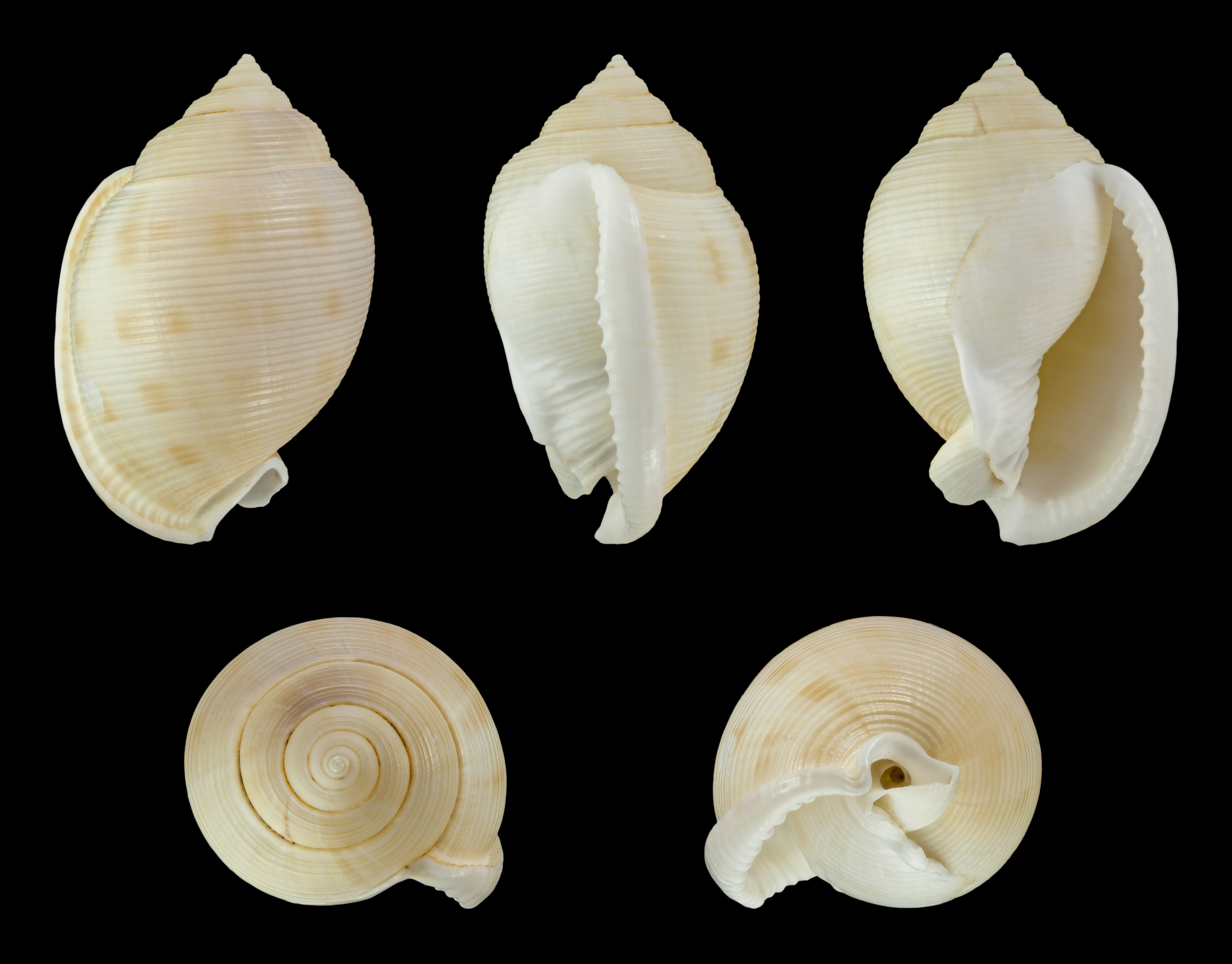 Semicassis bisulcata var. persimilis Kira, 1955, Japanese Bonnet; Length 5.4 cm; Originating from Japan. Shell of own collection, therefore not geocoded.